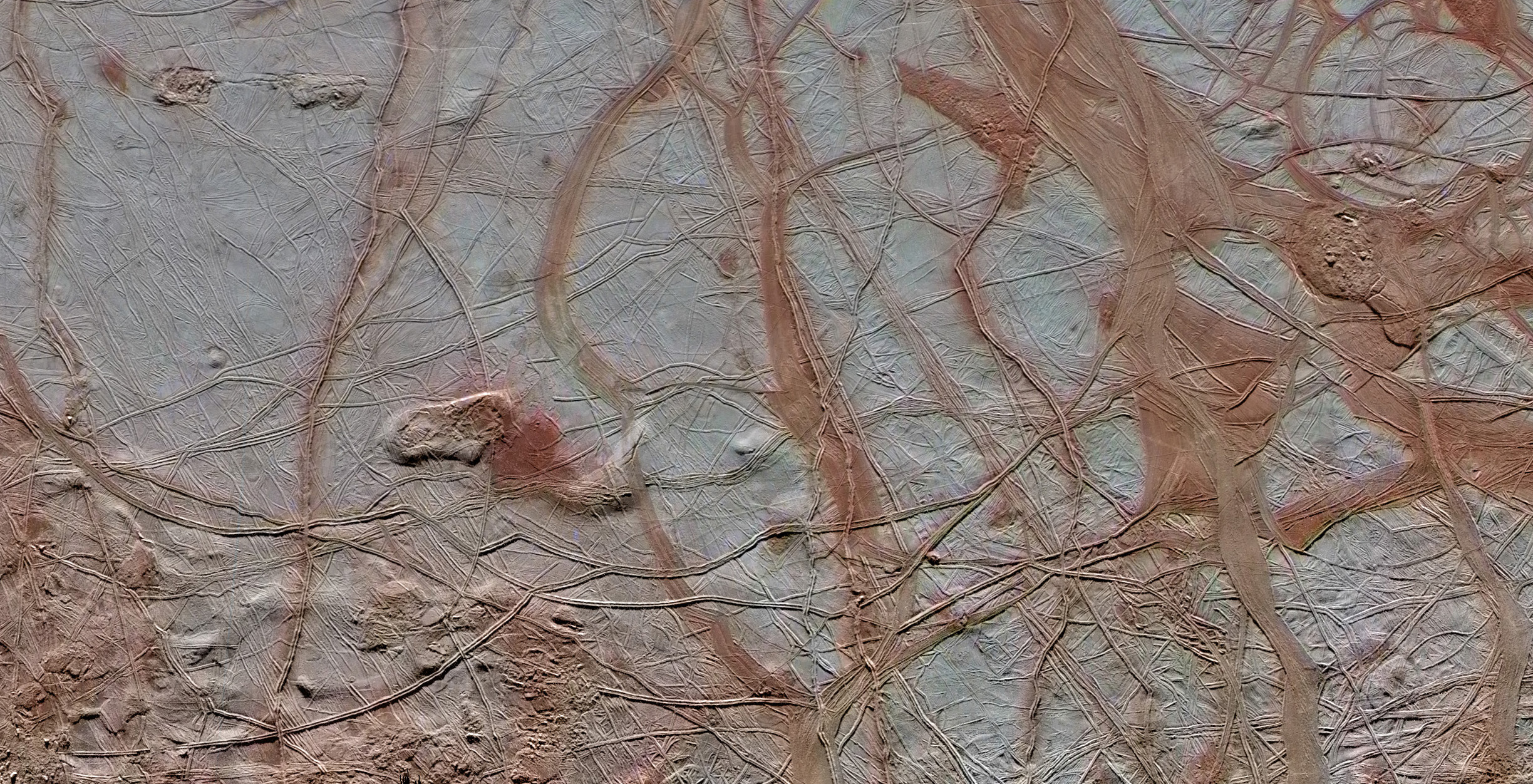 This enhanced-color view from NASA's Galileo spacecraft shows an intricate pattern of linear fractures on the icy surface of Jupiter's moon Europa. Newer fractures crosscut older ones, and several wide, dark bands are visible where the surface has spread apart in the past. The scene also contains several regions of "chaos terrain," where the smooth surface has been disrupted into jumbled blocks of material. Scientists are interested in studying Europa's surface materials from orbit and from the surface in order to understand their composition. If the surface ice is geologically active and convecting, as researchers have inferred, it is likely carrying chemical products produced by bombardment from Jupiter's radiation into the ocean thought to lie below. Those ingredients, called oxidants, may then be available to react with other chemicals, called reductants, coming from the seafloor, making useful chemical energy available for biology. The high-resolution images for this view were obtained by the Galileo Solid-State Imaging (SSI) instrument on September 25, 1998. They were then combined with lower-resolution color data from an observation taken on March 29, 1998. The high-resolution images have a pixel scale of 735 feet (224 meters) per pixel, and the image is approximately 220 miles (350 kilometers) wide. The Galileo mission was managed by NASA's Jet Propulsion Laboratory in Pasadena, California, for the agency's Science Mission Directorate in Washington. JPL is a division of the California Institute of Technology, Pasadena. Additional information about Galileo and its discoveries is available on the Galileo mission home page at More information about Europa is available at The original NASA image was rotated 90° counterclockwise and converted from TIFF to JPEG format by the uploader.